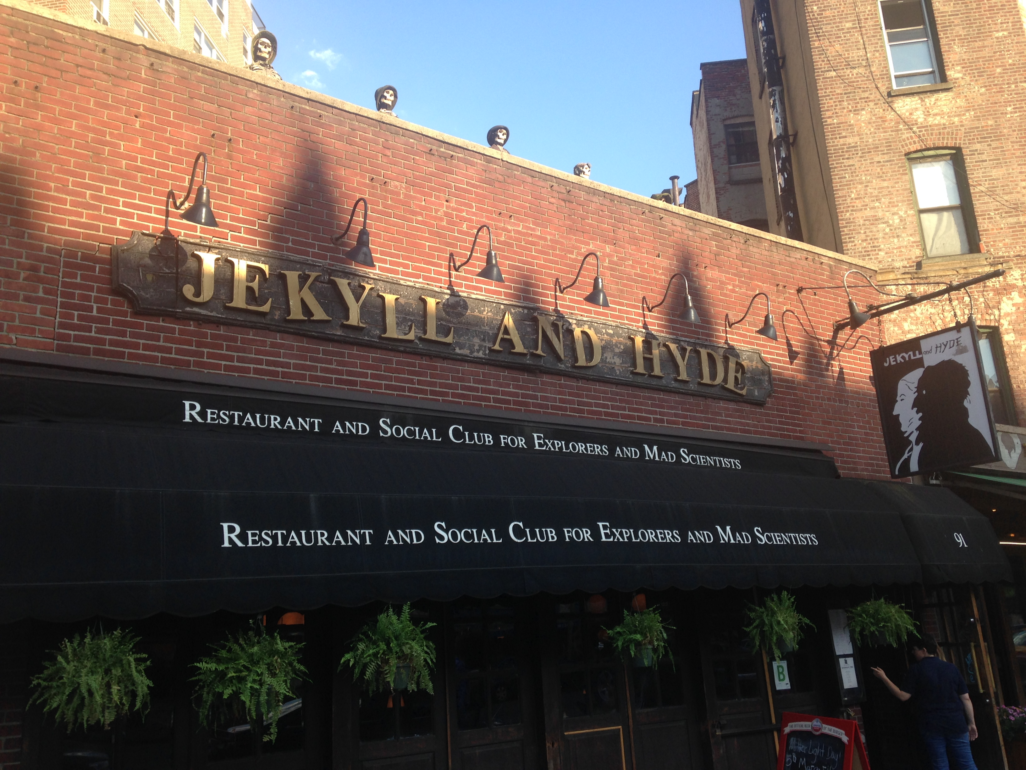 The Jekyll & Hyde Pub in Greenwich Village, New York, on a hot summer day